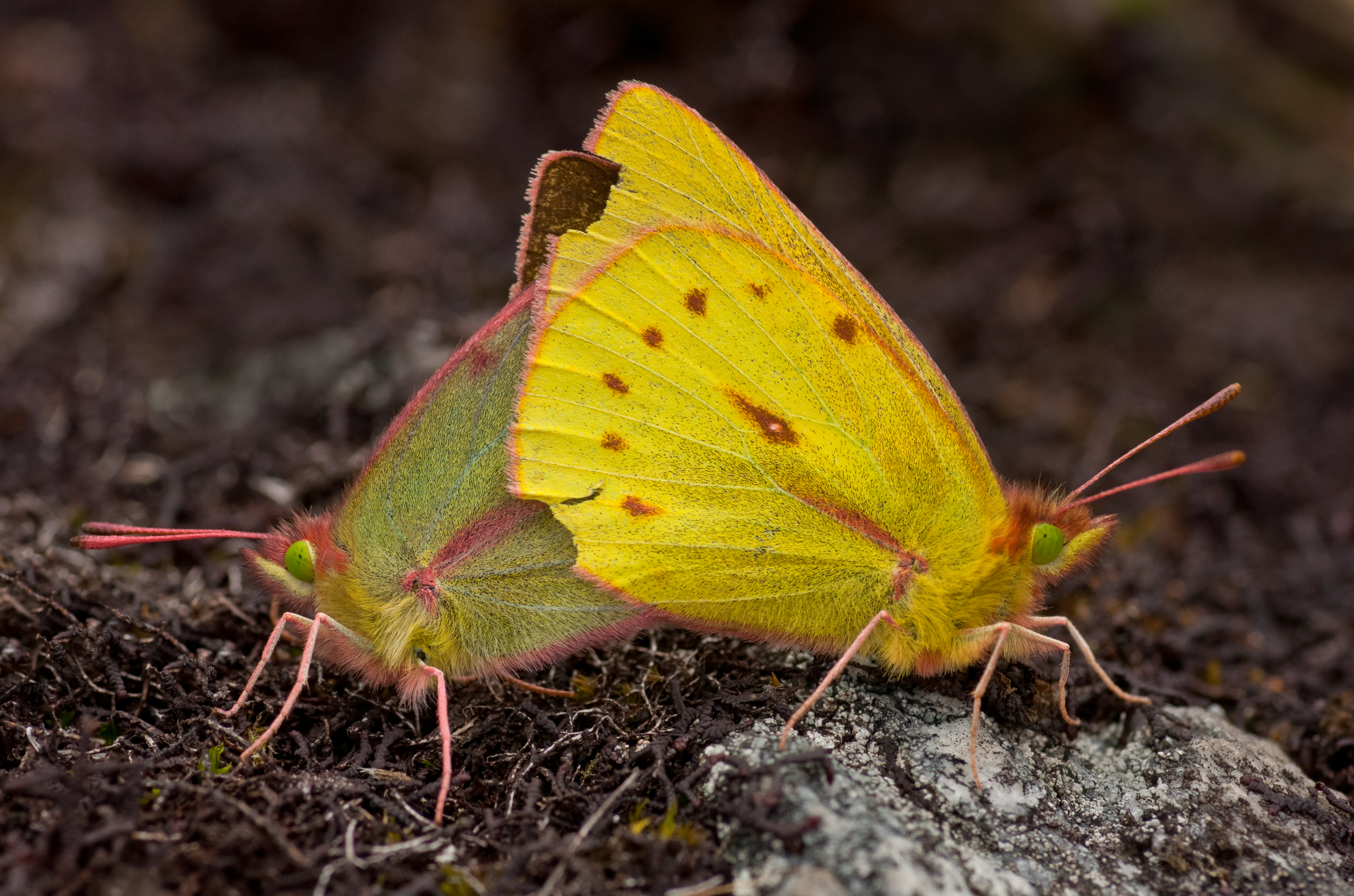 Colias dimera couple copulating, found at an altitude of 2.000 mts a.s.l., in the Andes mountains in Venezuela.